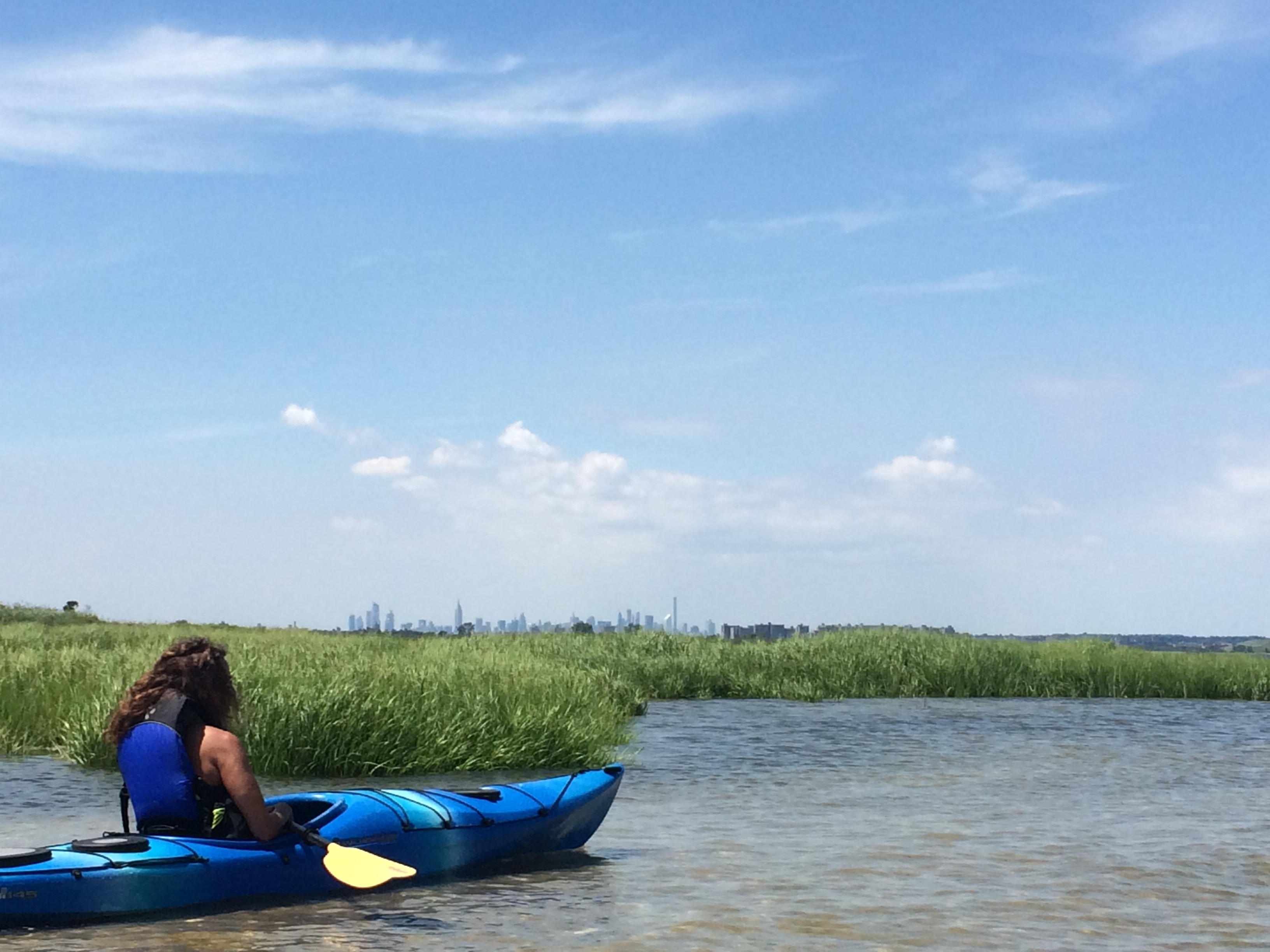 A kayaker rests near Ruffle Bar in Jamaica Bay, a part of Gateway National Recreation Area. The New York City skyline can be seen in the distance.